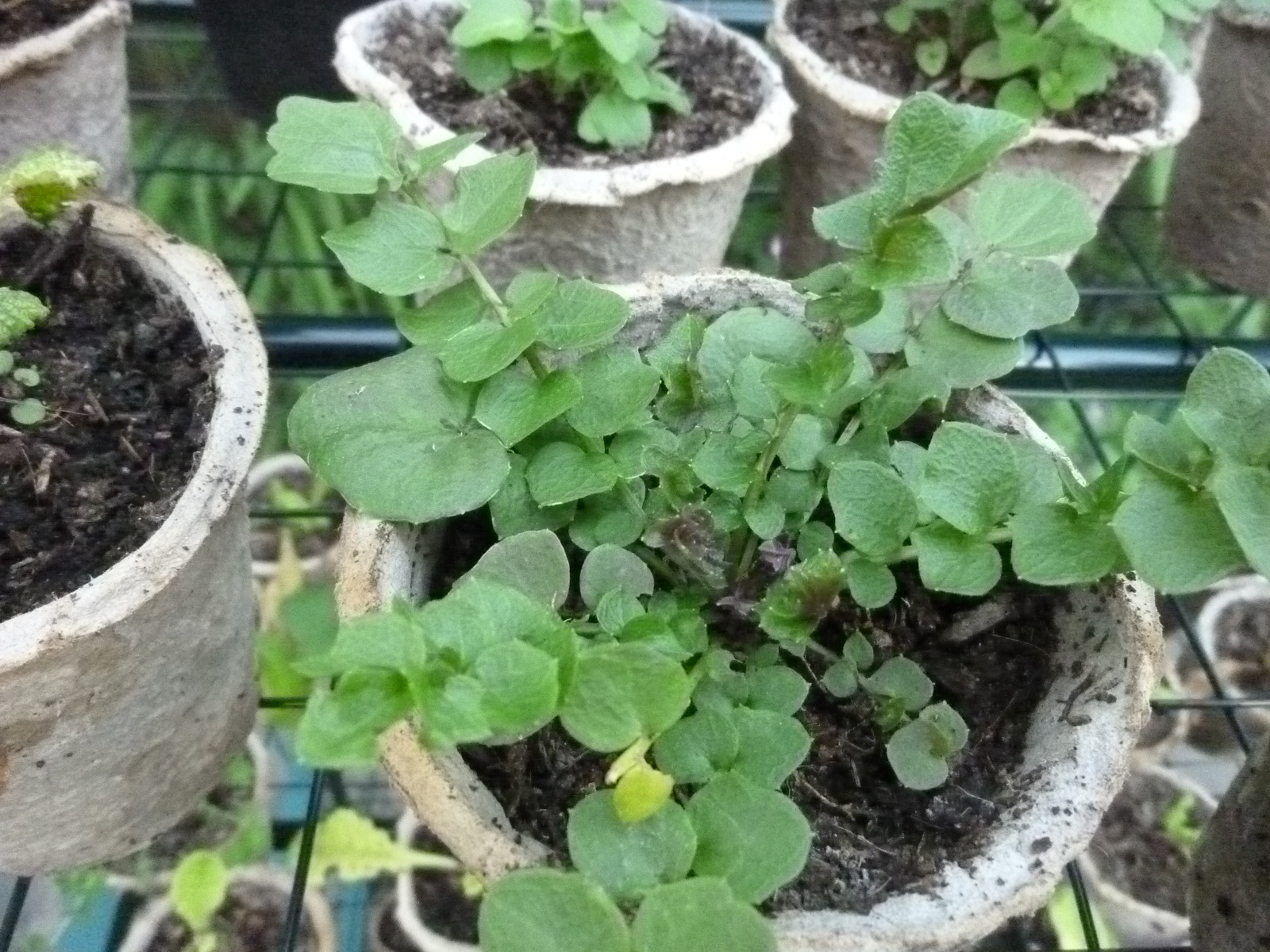 From plug